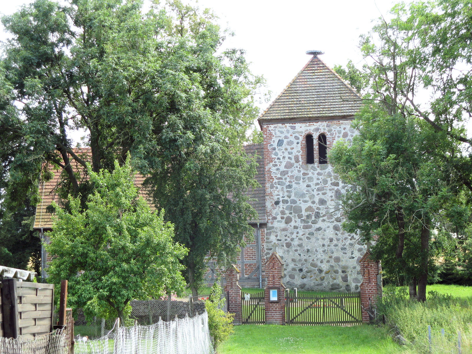 Church in Bütow, disctrict Mecklenburgische Seenplatte, Mecklenburg-Vorpommern, Germany